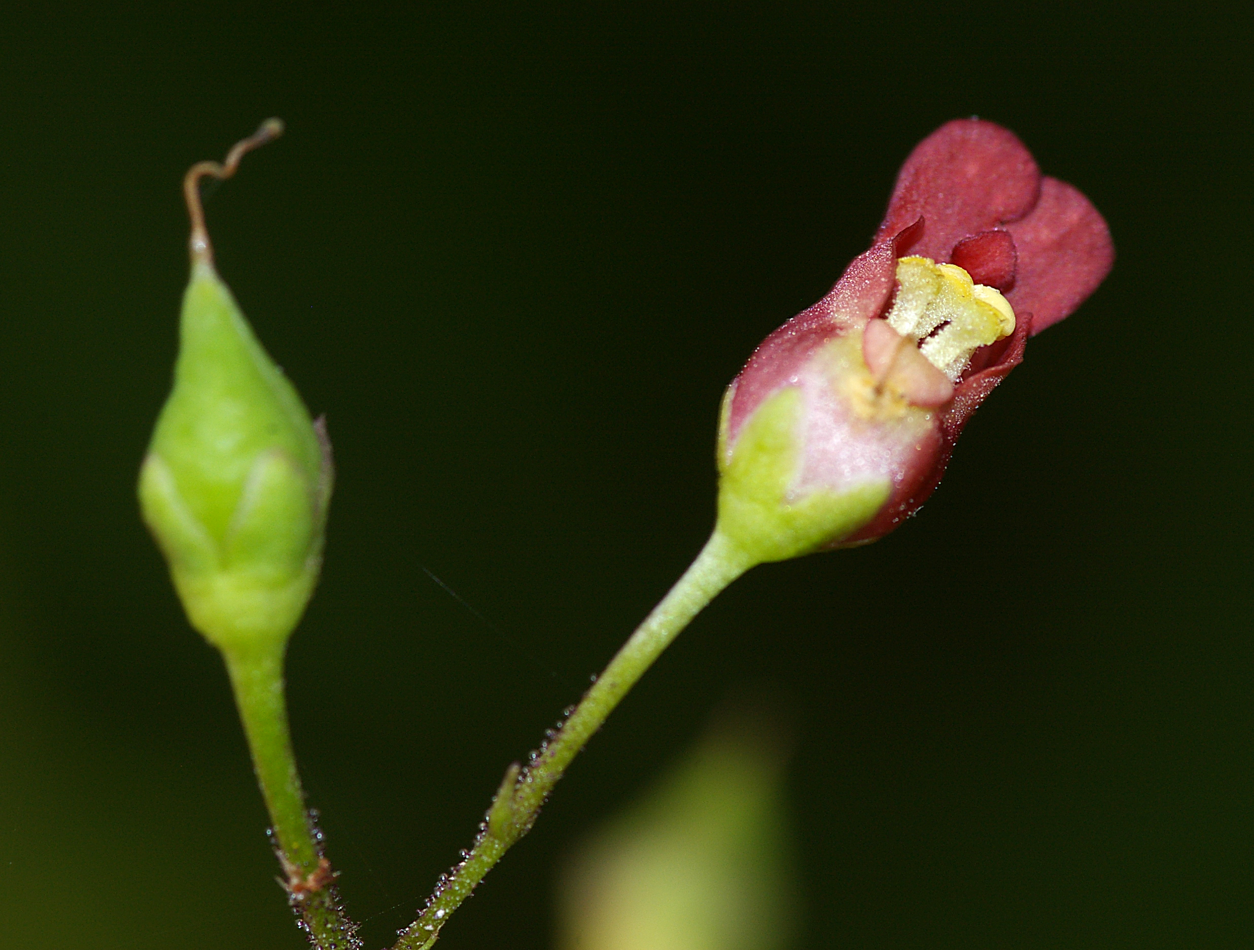 CALIFORNIA - FLOWERS of San Luis Obispo Co